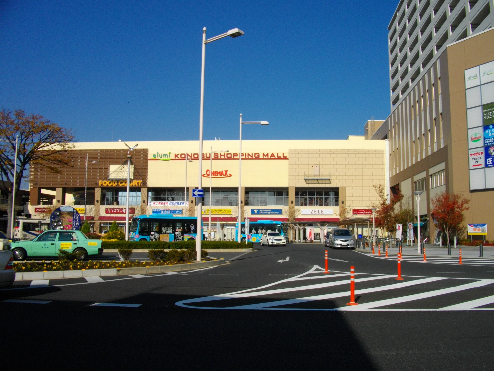 Elumi Konosu